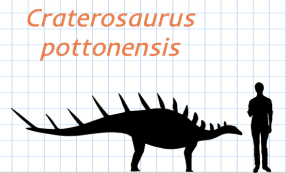 Size comparison of the Createcous British stegosaur Craterosaurus. The silhouette is the same one used for Kentrosaurus & File:Kentrosaurus silhouette.svg (CC0). The human silhouette is from File:Silhouette of man standing and facing forward.svg (CC0).